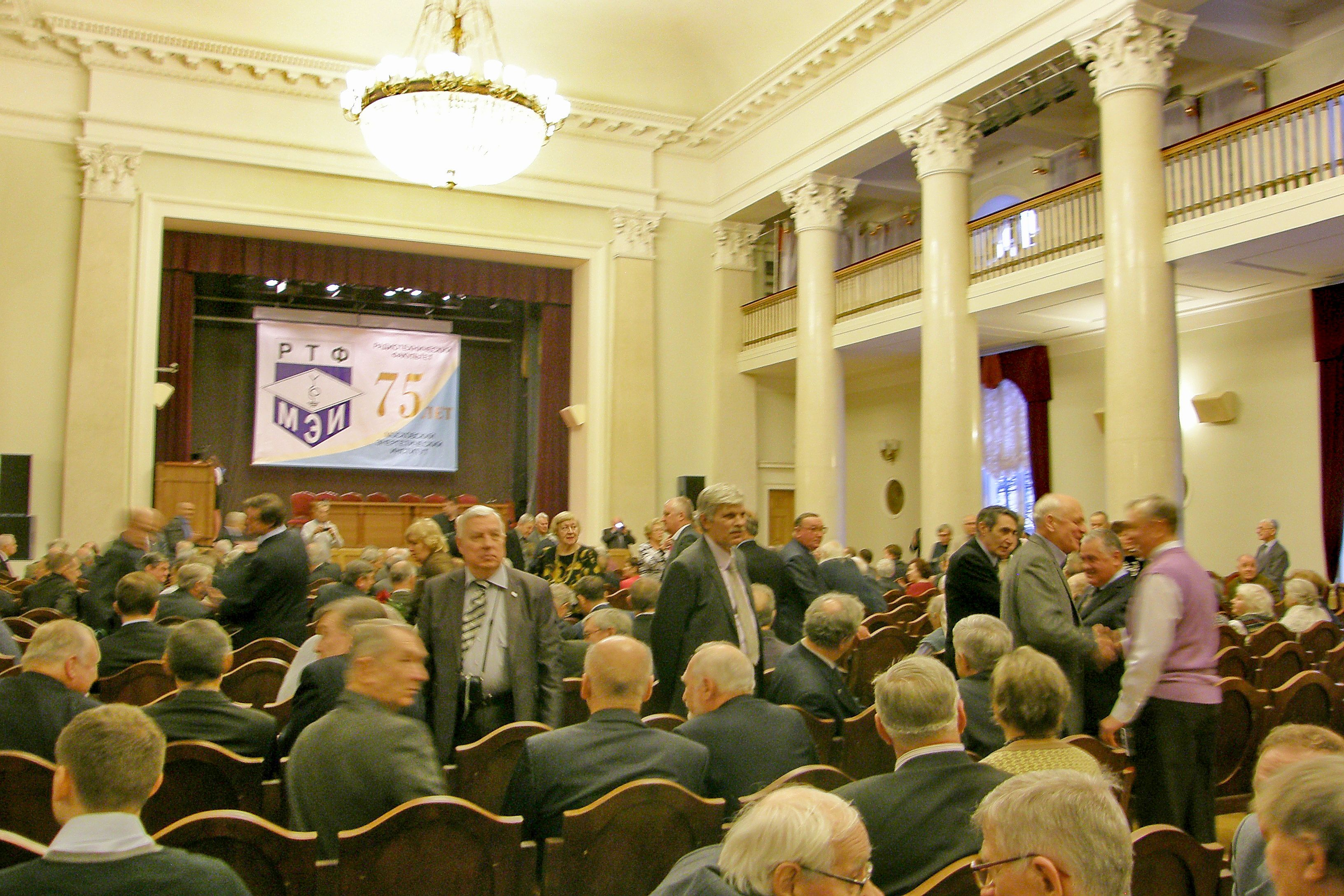 MEI TU 2